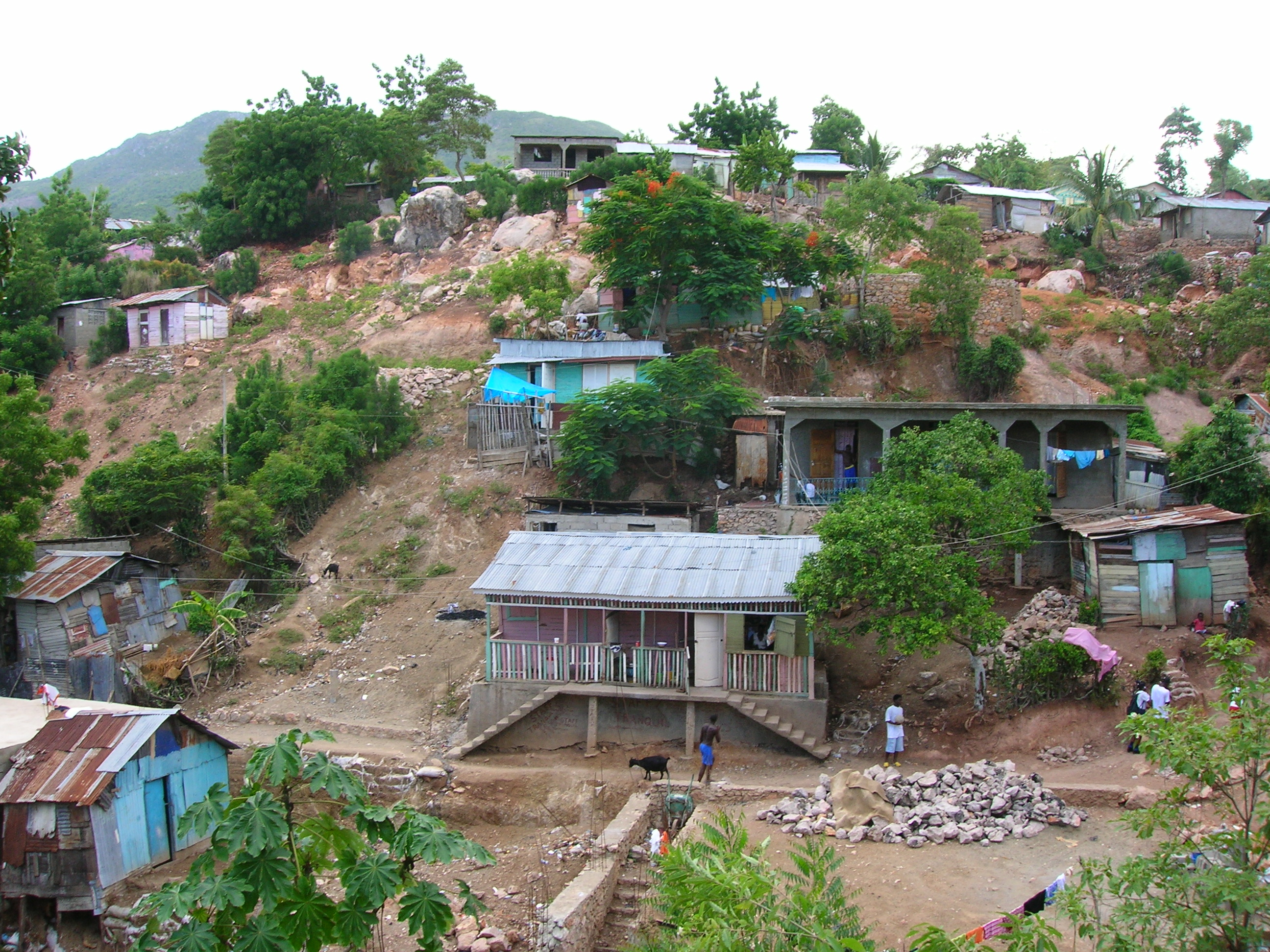 The area of Bas-Ravine, in the northern part of Cap-Haitien.